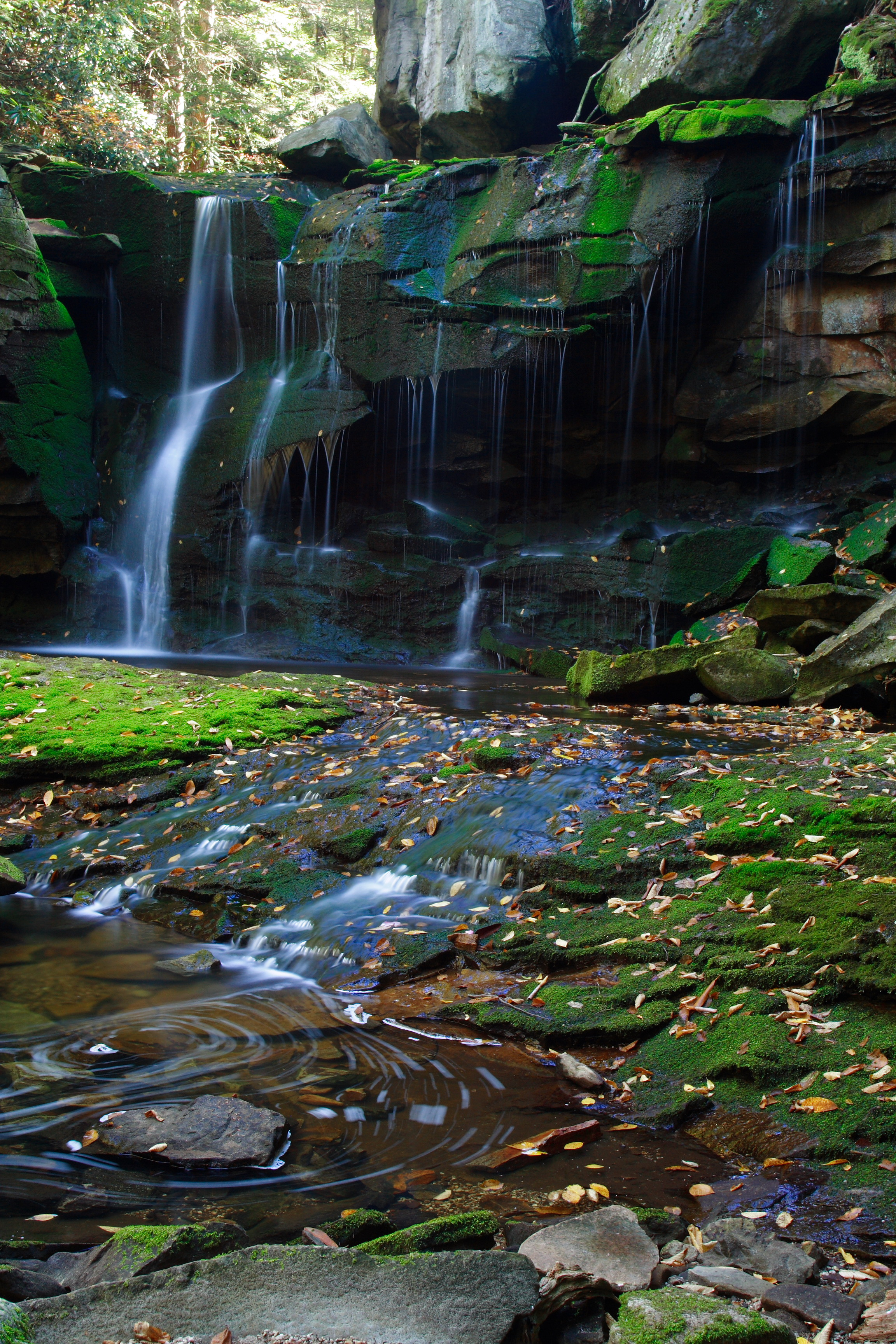 Falls of Elakala of Shays Run in Blackwater Falls State Park, West Virginia